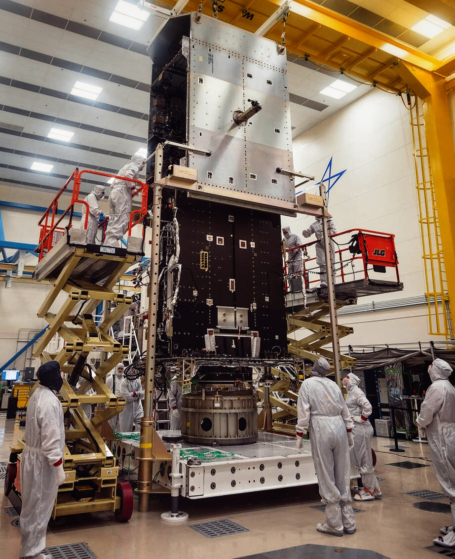 GOES-T Satellite “Brains” and “Body” Merged - The “mating” of the GOES-T system module and core propulsion module occurred on September 22. As part of the mate process, the system module, or “brain,” and propulsion module, or the “body,” of the spacecraft were merged together to form the integrated GOES-T spacecraft. The GOES-R satellite series consists of GOES-R, GOES-S, GOES-T, and GOES-U. This series is more advanced than the previous GOES fleet in that the imager can scan the Earth five times faster, at four times the image resolution, with triple the number of channels for more accurate, reliable weather forecasts and severe weather outlooks. They will also provide critical solar monitoring and space weather observations.